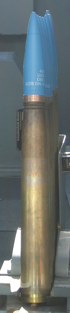 Munition 40mm